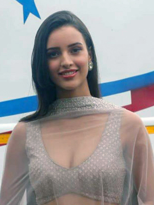 Tripti Dimri snapped during Laila Majnu promotions, Aug 27, 2018